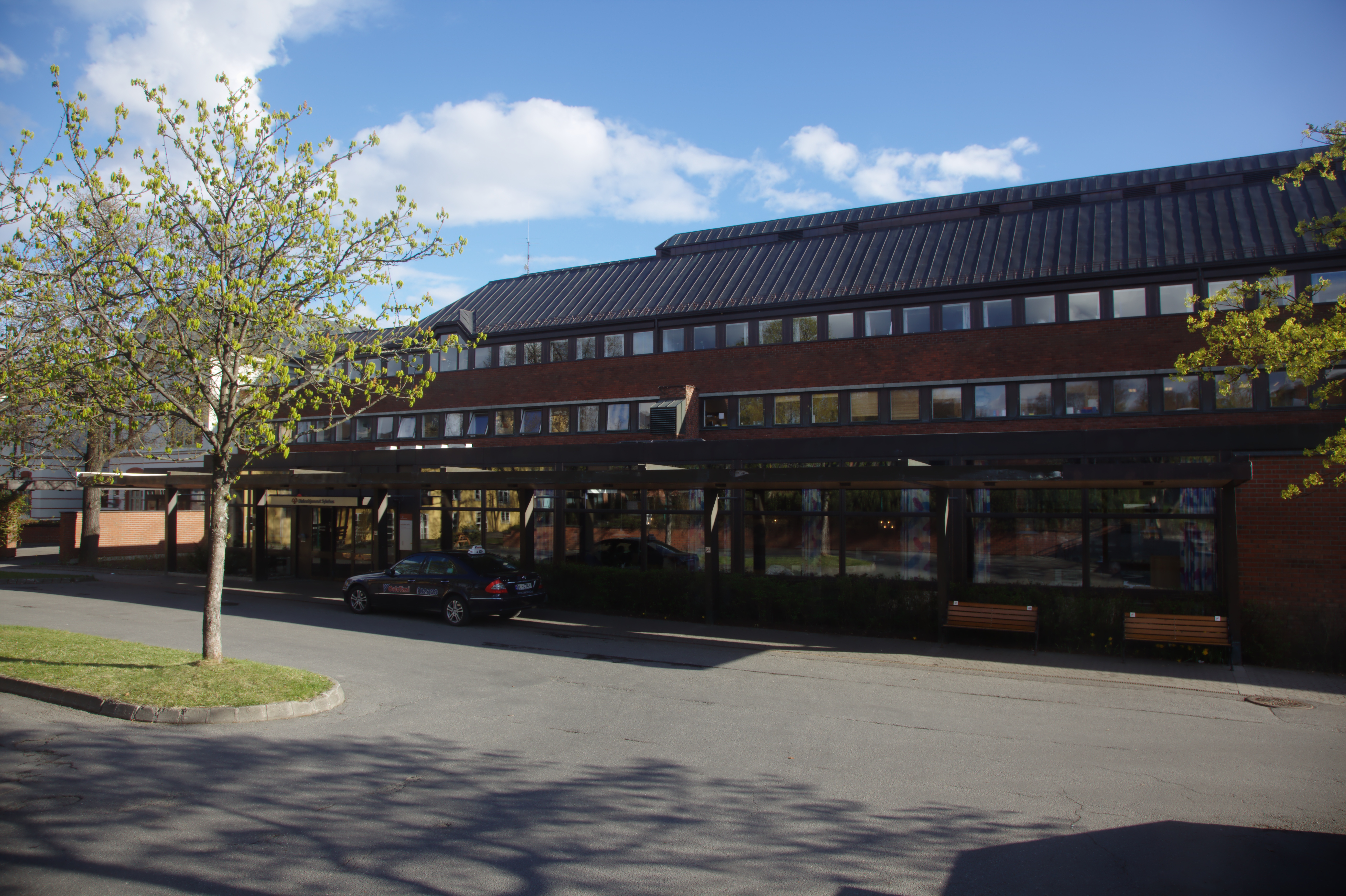 Diakonhjemmet hospital. Main entrance. Emergency entrance to the left on this side of Diakonhjemmet Høgskole